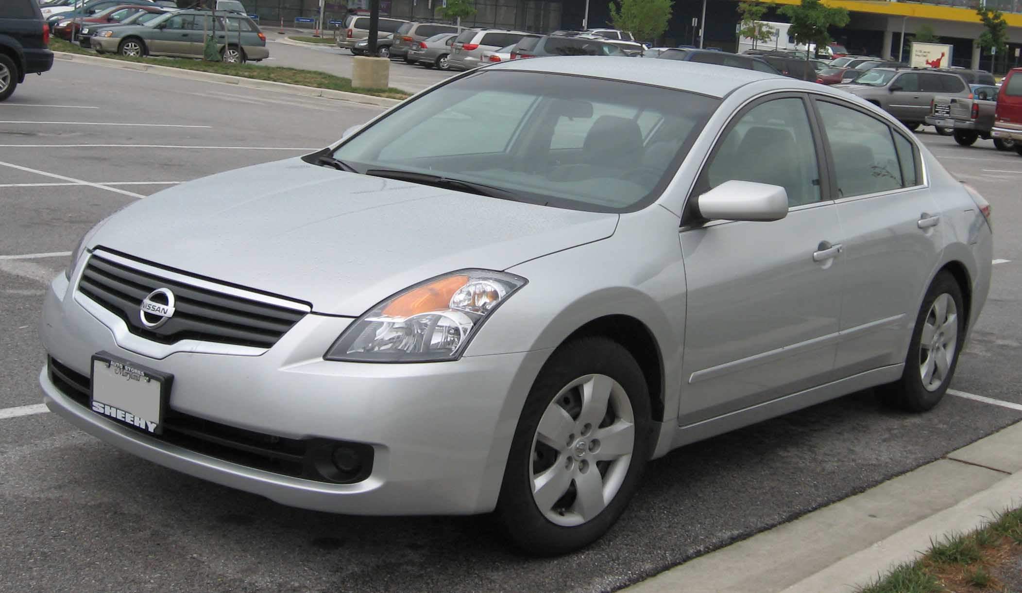 2007 Nissan Altima photographed in College Park, Maryland, USA.